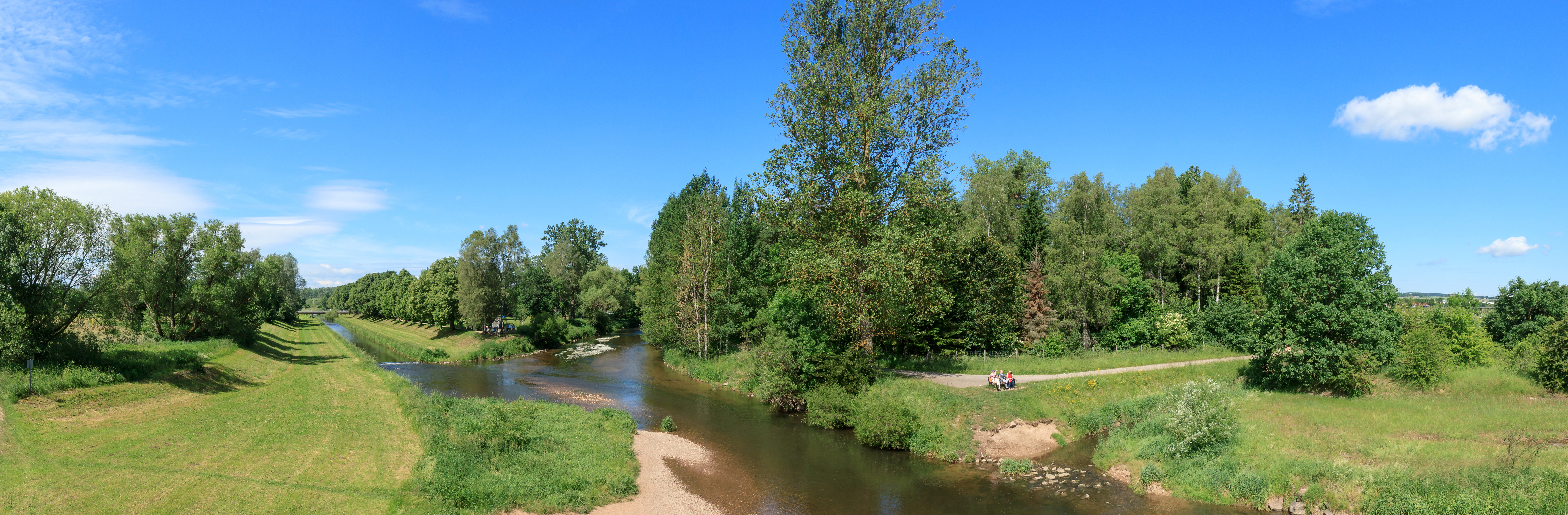 The confluence of Breg (left) and Brigach (right) near Donaueschingen, Germany, is the beginning of the river Danube.